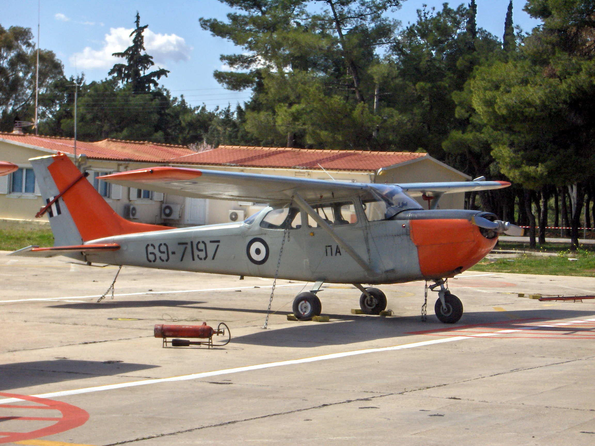 Cessna T-41D of the Hellenic Air Force, 360 Training Squadron. Crew: 2 (trainer and trainee) Engine: 1 Continental 0-360-D six-cylinder piston engine of 210 hp Wing Span: 35 ft and 10 inches Length: 26.11 ft Maximum Speed: 139 miles/hour Service Ceiling: 13,100 ft